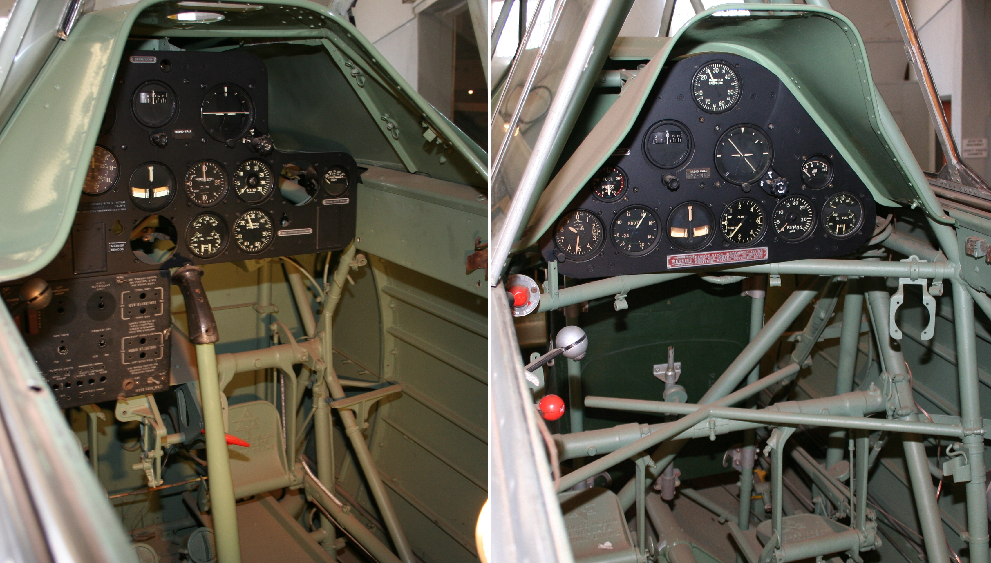 Forward (left) and aft cockpits on the T-6 Texan (Harvard) at the South African Air Force Museum in Swartkop, Tshwane